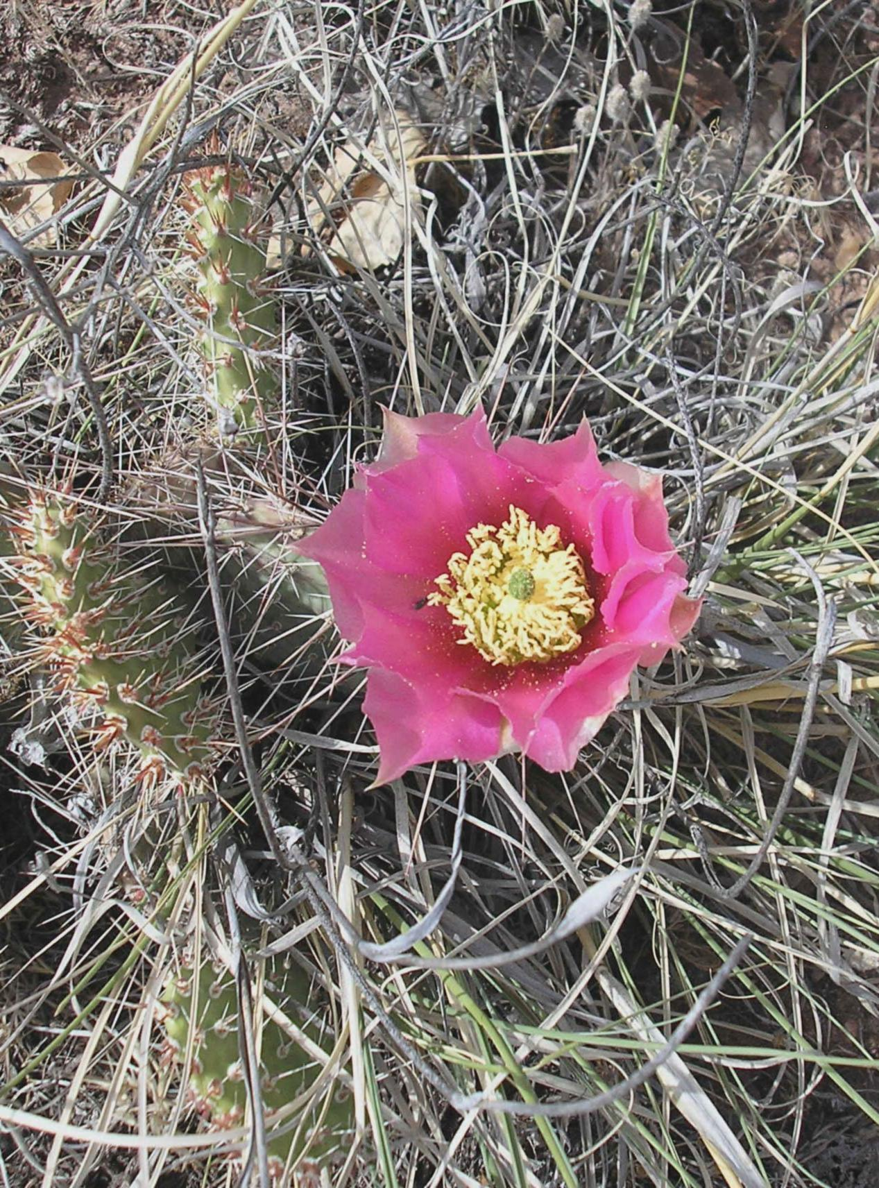 Opuntia polyacantha Canyon de Chelly National Monument, Arizona, USA.